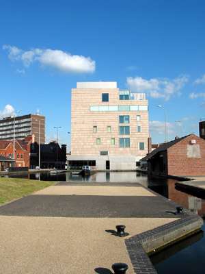 Walsall Art Gallery copyright Richard Gallagher. Permission is granted to copy, distribute and/or modify under the GFDL, version 1.2 any later version published by the Free Software Foundation; with no Invariant Sections, with no Front-Cover Texts, and with no Back-Cover Texts.